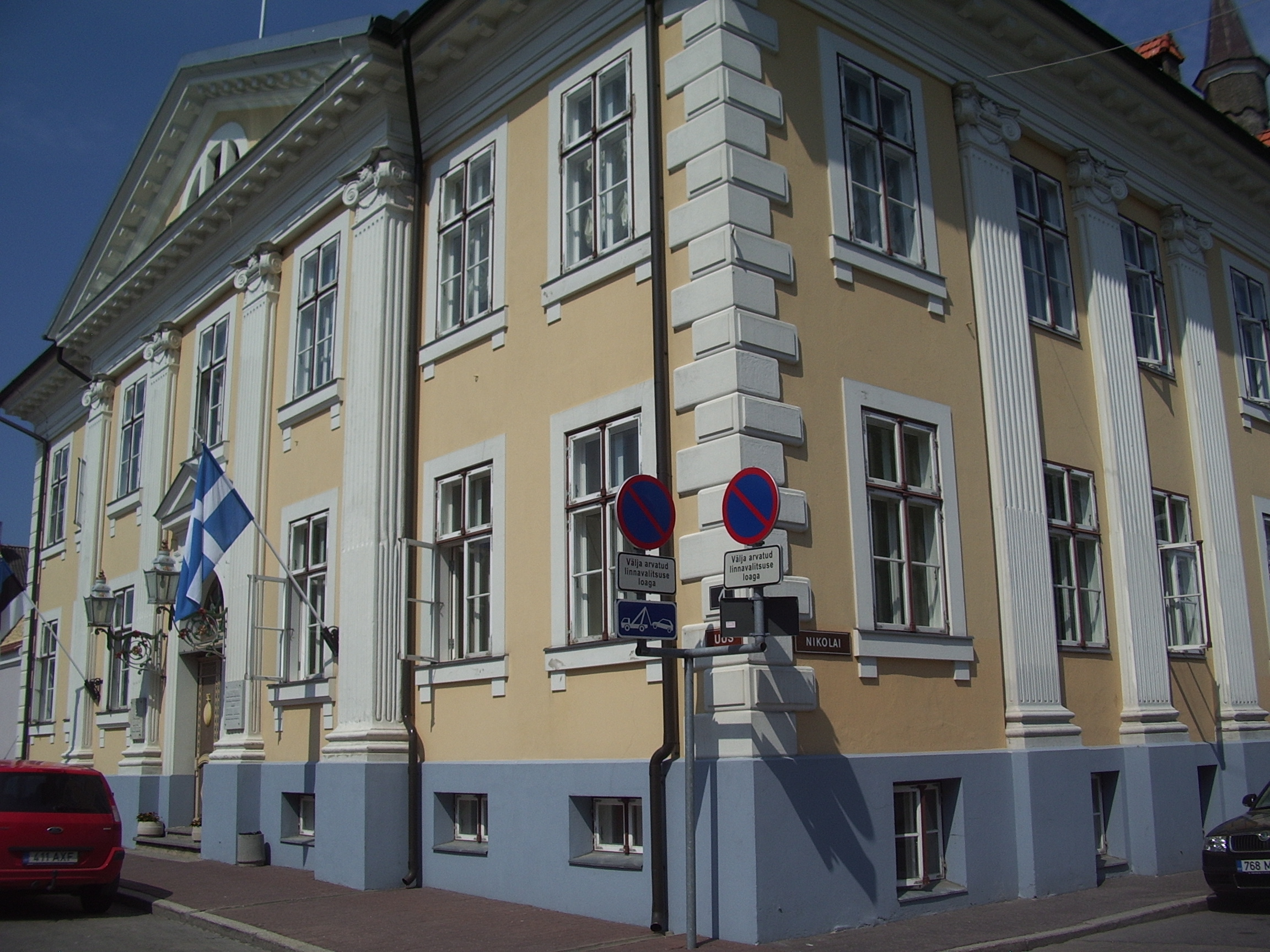 Pärnu town hall